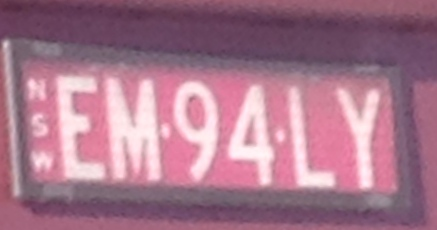 Plate number NSW